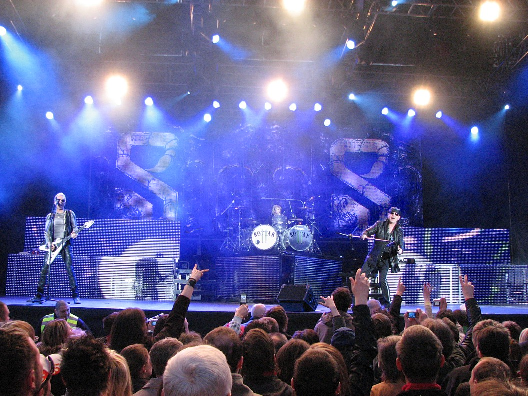 Scorpions (band), Ostrawa (Czech Republic)